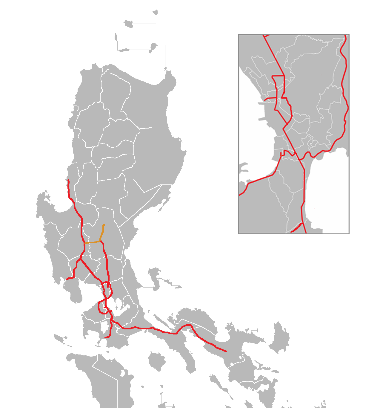 A map of CLLEX.